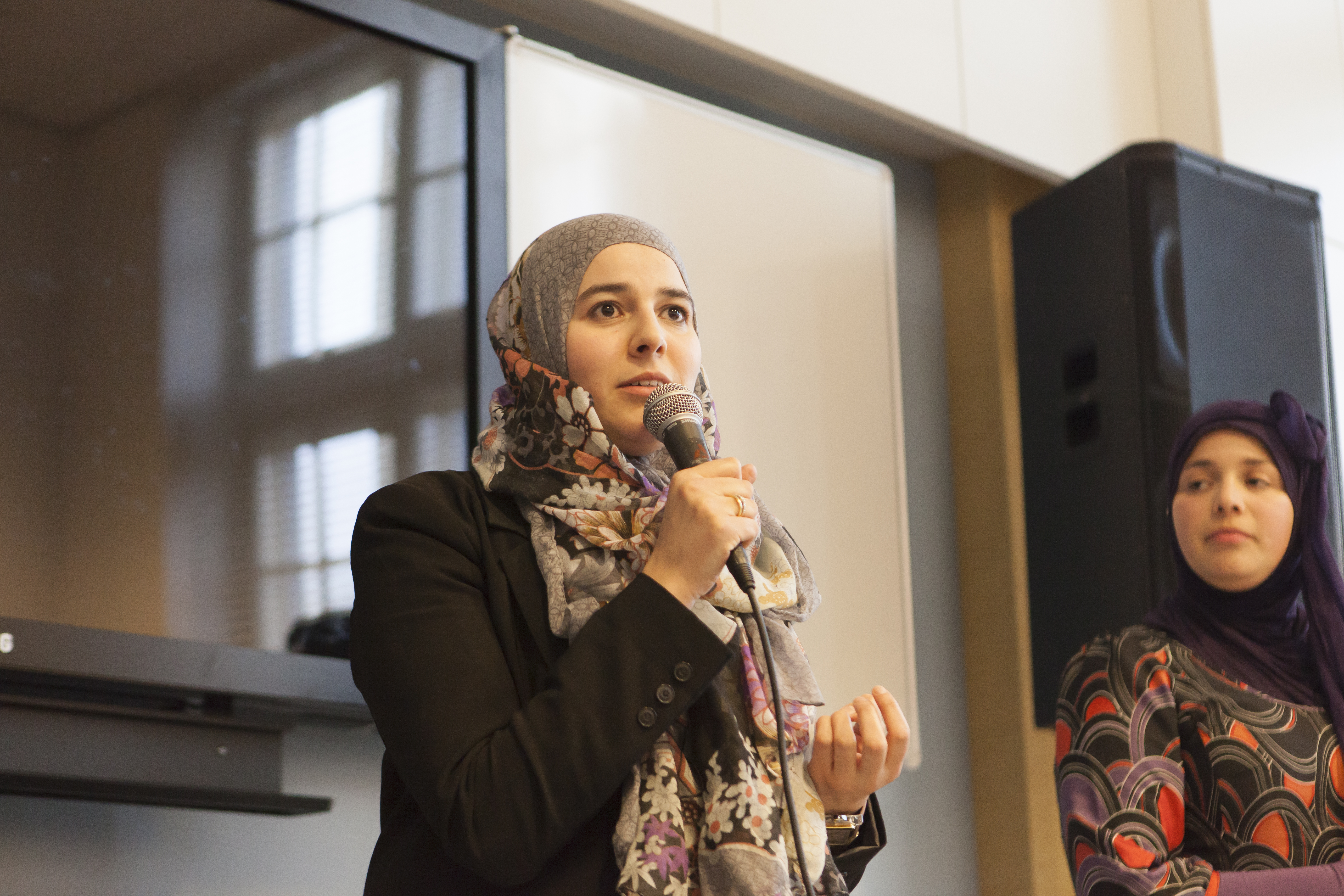 Meiden van Halal [erformance at Haganum Festival in The Hague